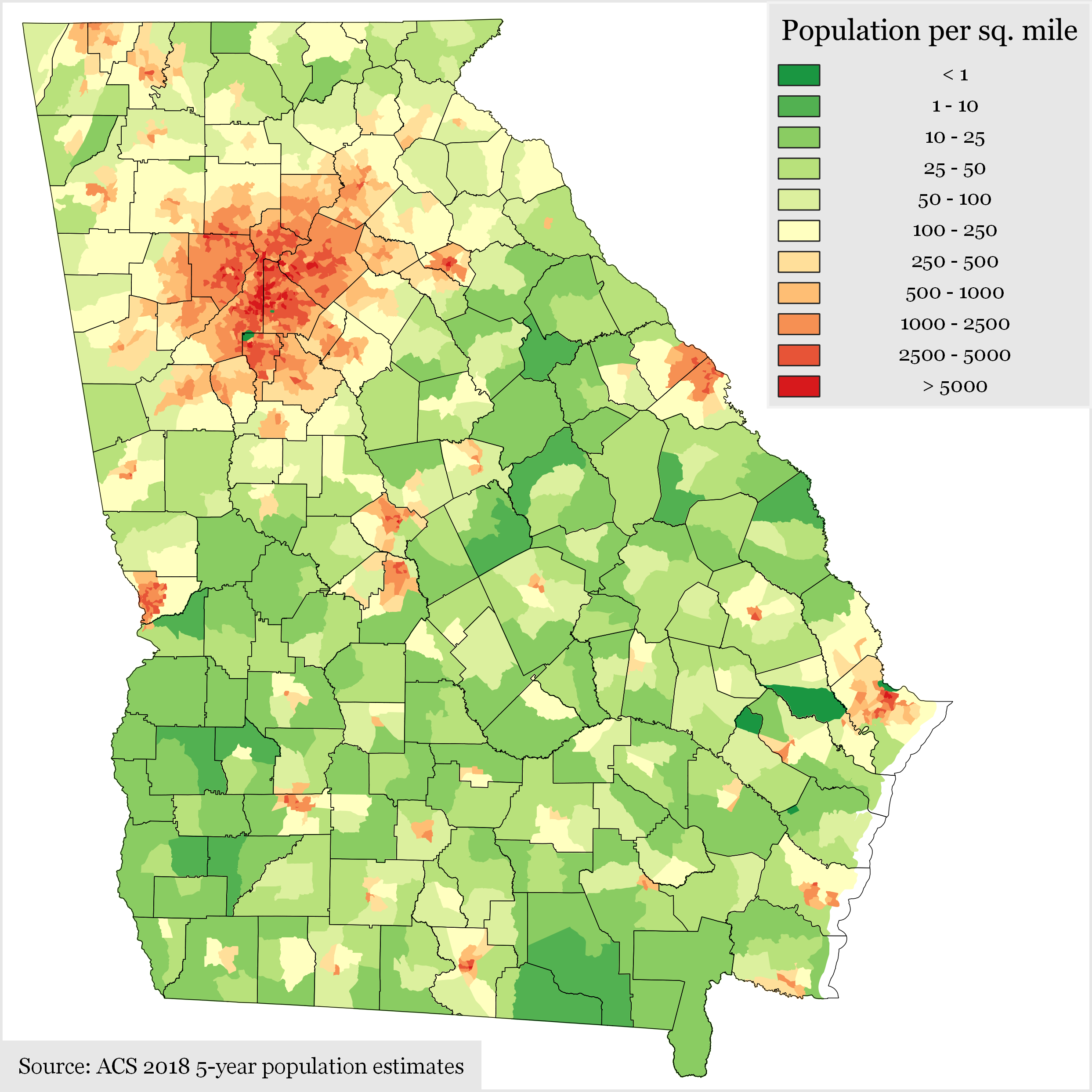 This is a map displaying population density by census tract in the state of Georgia as of 2018.